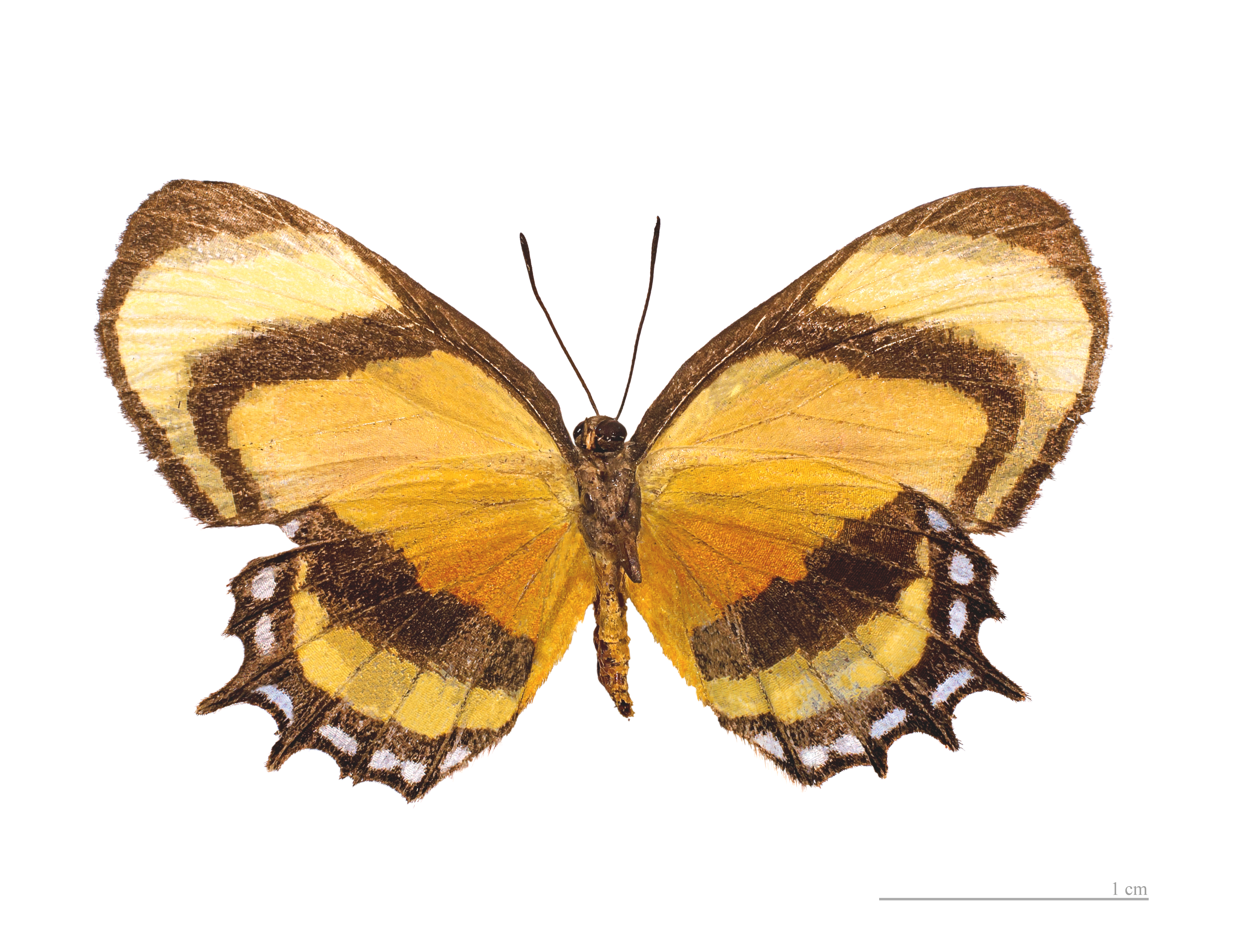 ♀ - △ Ventral side Locality : Route de Kaw, Placer Trésor, French Guiana.